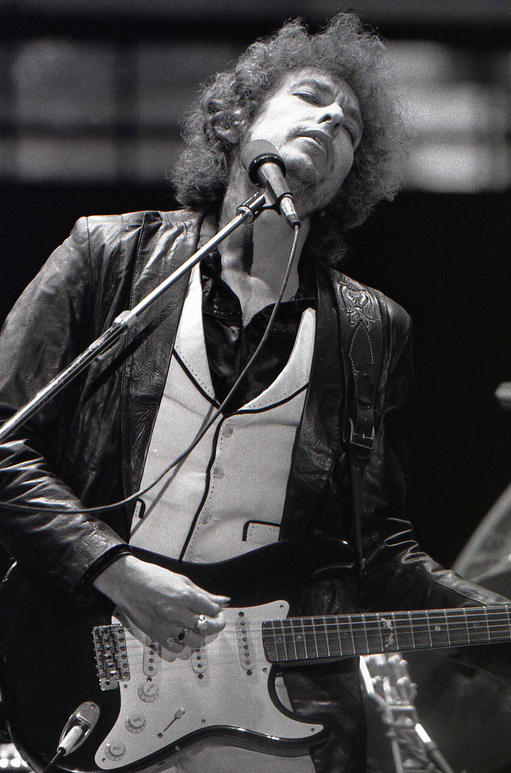 Bob Dylan performing in Rotterdam, June 23 1978